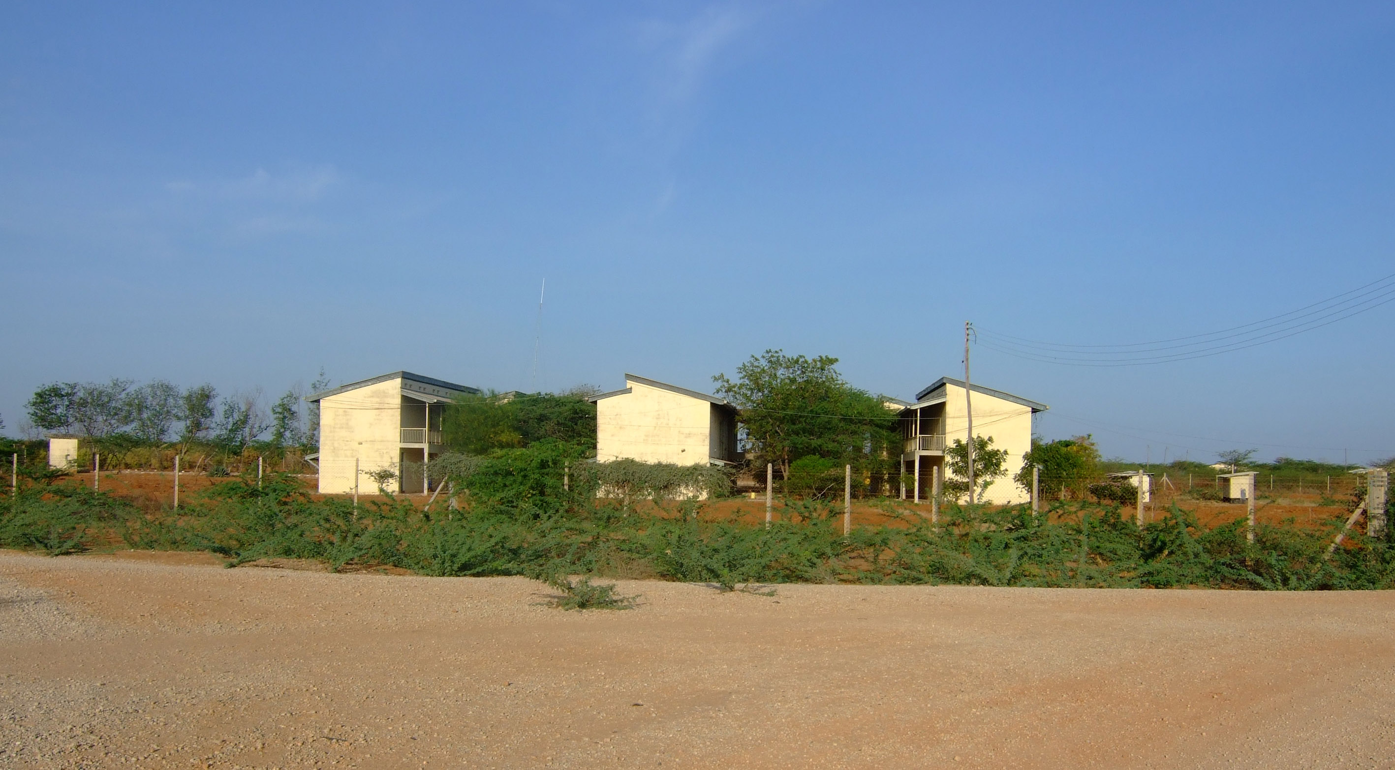 BISP offices at Bura town. The building was constructed in 1983-1984 by P&C Limited, Bura Joint Venture. The picture was taken in 2008.